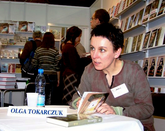 a picture of Olga Tokarczuk, a Polish novelist